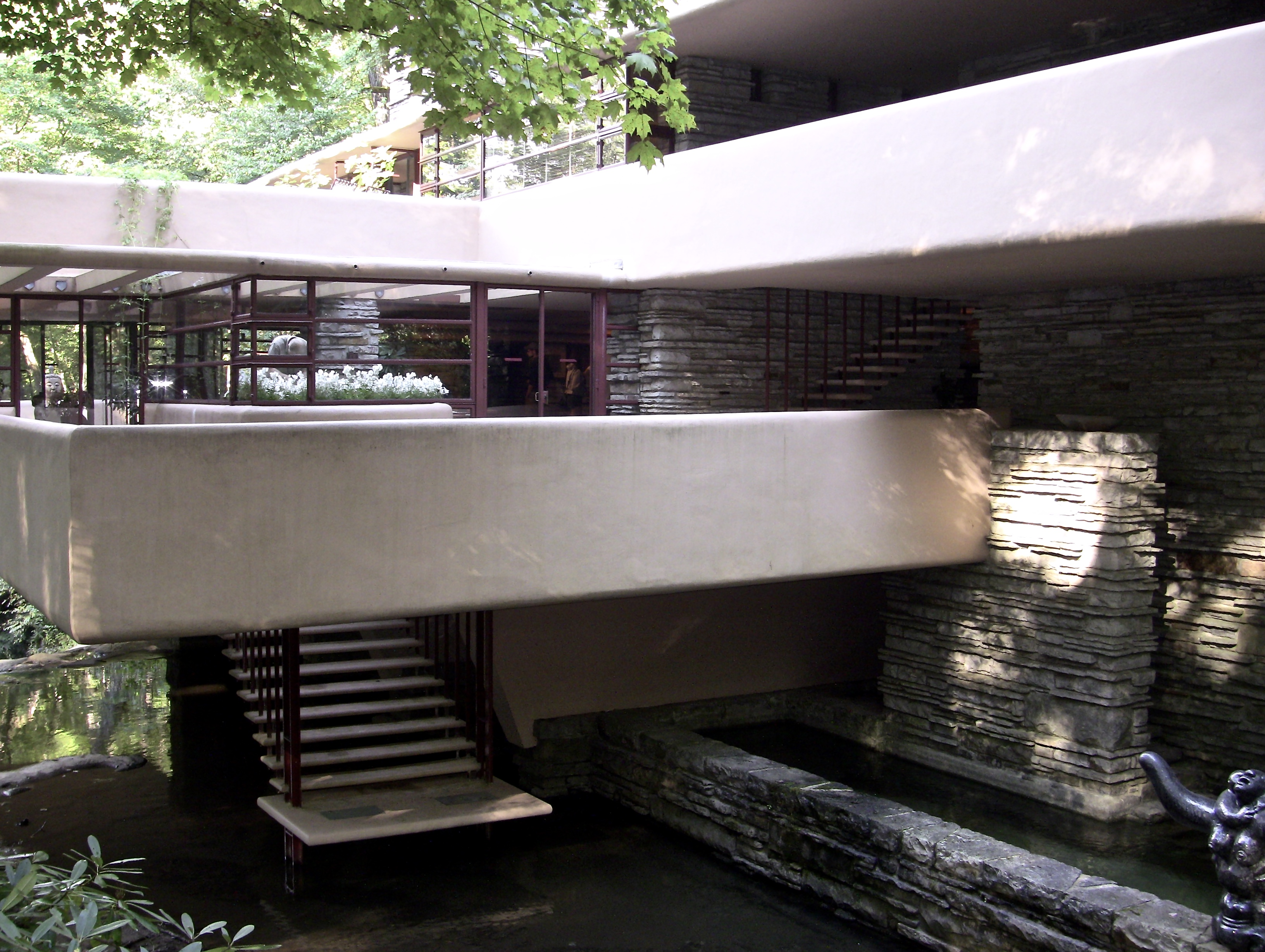 Frank Lloyd Wright's Fallingwater in southwest PA. Upstream view.